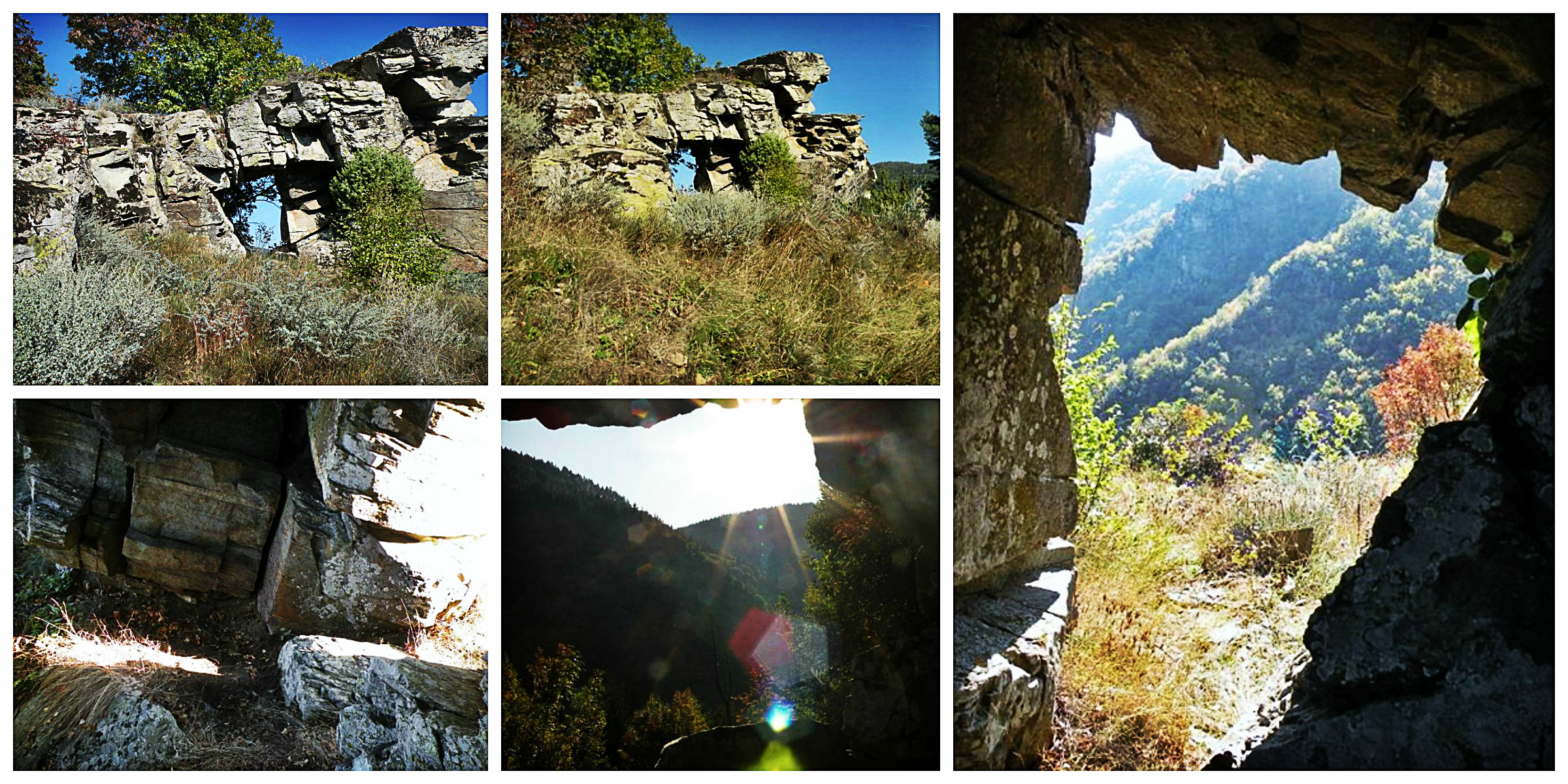 Tzarevi porti Kovacevica West Rhodopes BG